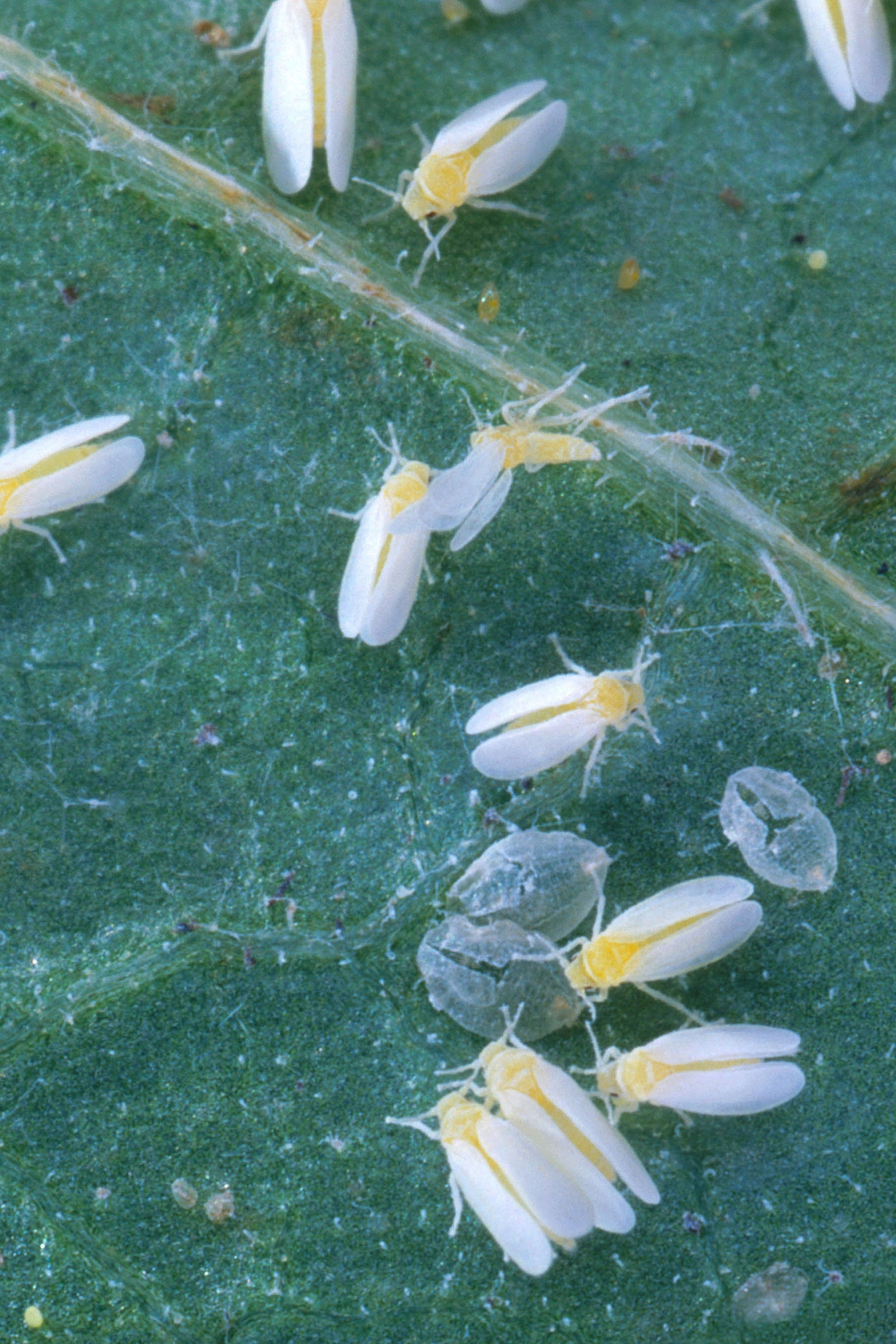 Bemisia argentifolii Common Name: silverleaf whitefly Photographer: Scott Bauer, USDA Agricultural Research Service, United States Contact: USDA ARS Photo Unit, USDA Agricultural Research Service Descriptor: Adult(s) Image taken in: United States